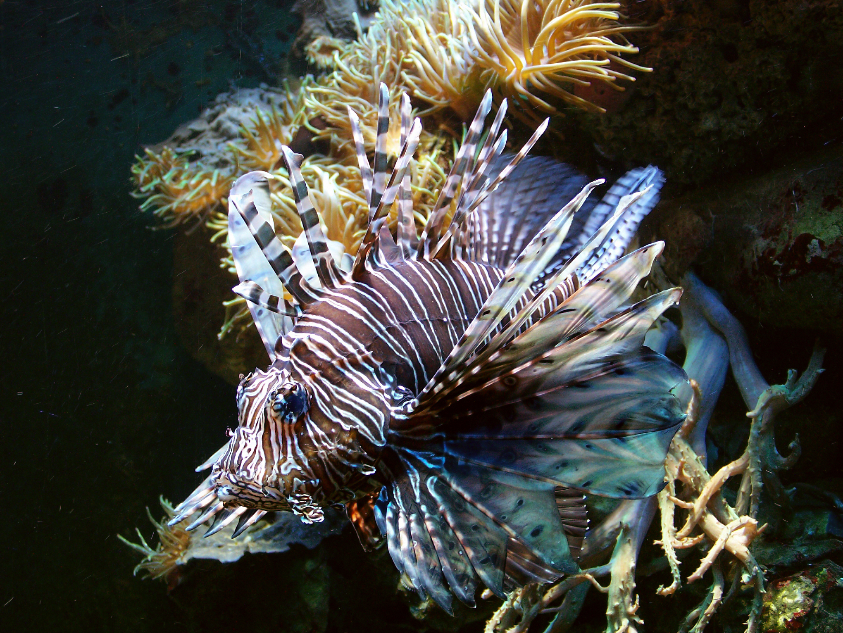 Pterois volitans - red lionfish.